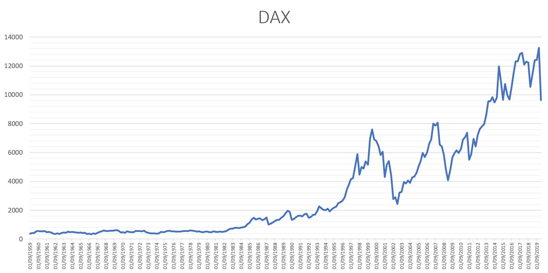 DAX from September 1959 to March 2020 (daily closings). Data from .